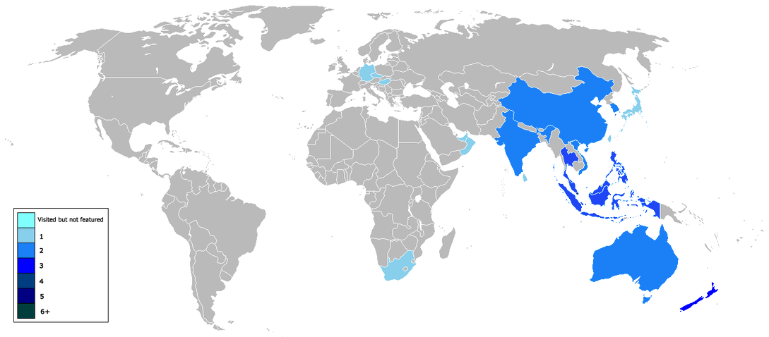 This is map showing countries that been visited in the show The Amazing Race Asia. Those countries are in green.